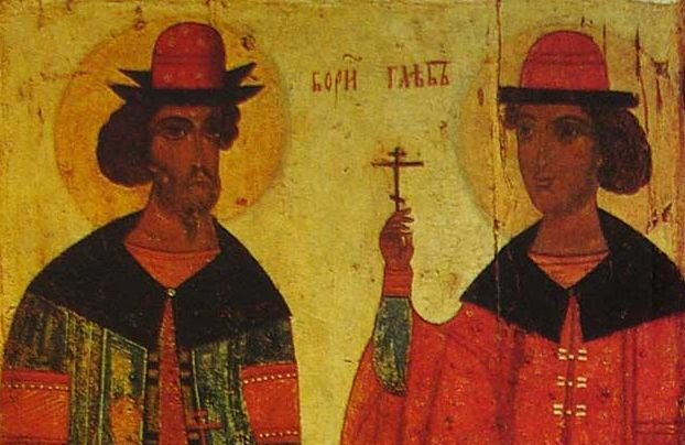 Boris and Gleb (for template about this saints)